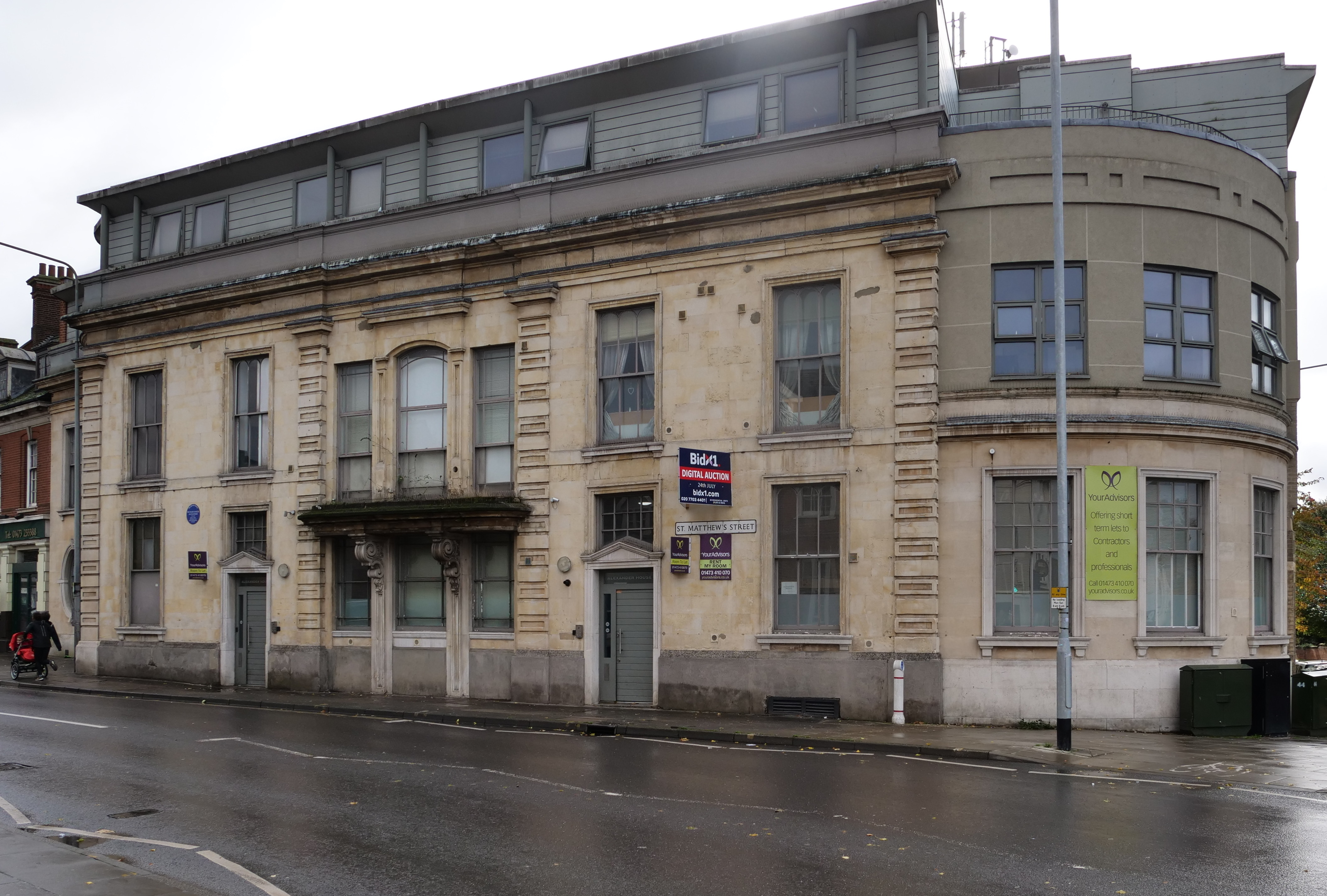 Two storey victorian residential building